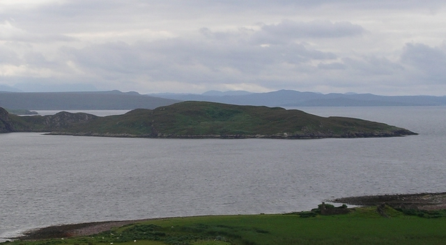 Meall nan Gabhar. Looking across Horse Sound from Badenscaillie. The N tip of Horse Island is on the left.